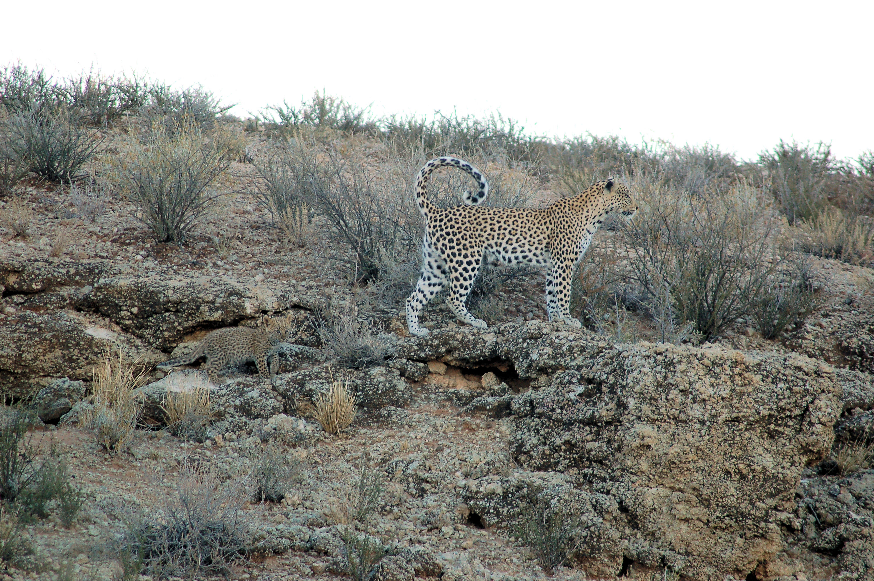 Leopard and cub in Kgalagadi National Park, South Africa